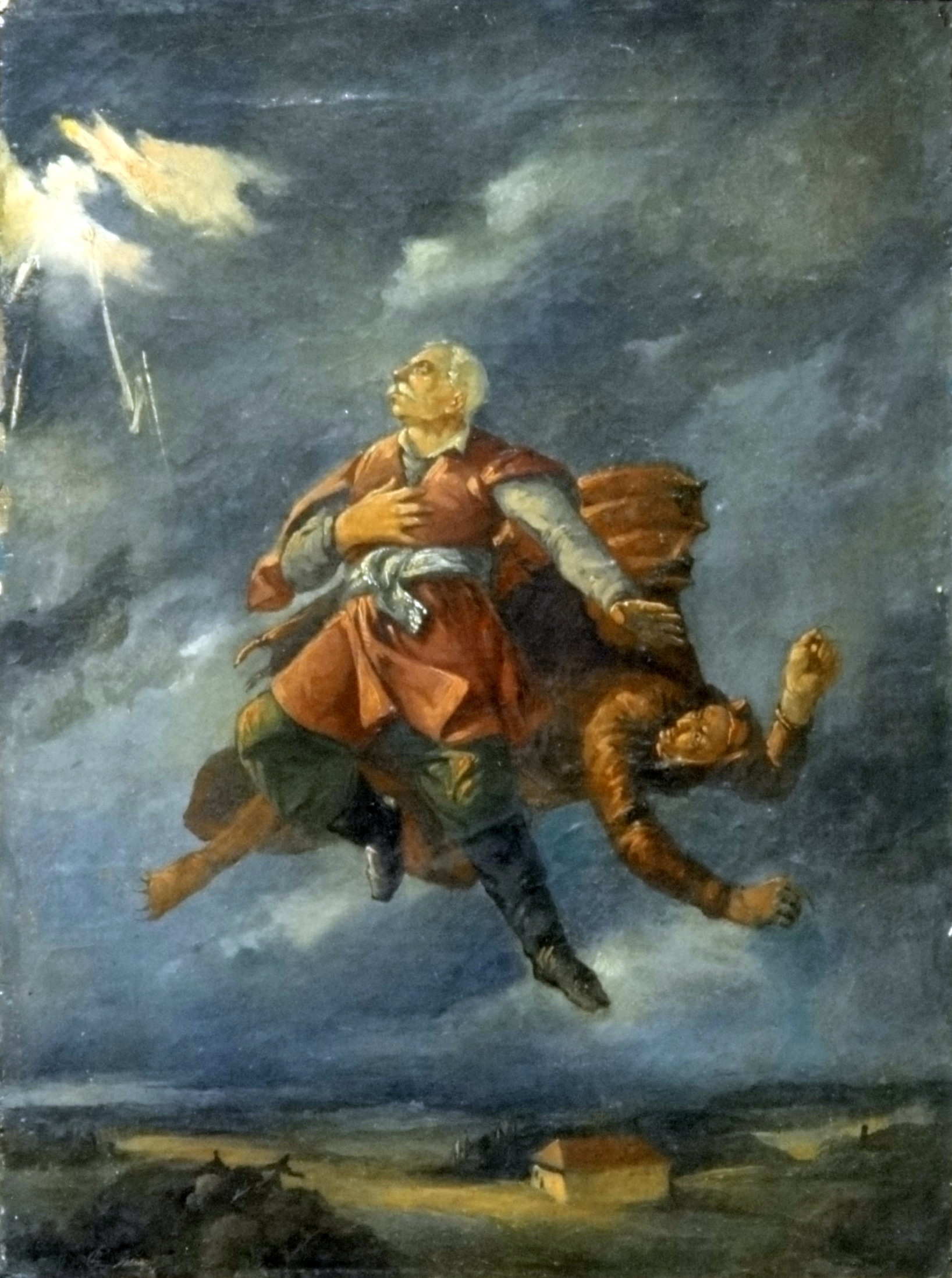 Pan Twardowski by Ignacy Gierdziejewski, oil on canvas, mid-19th century, collection of the National Museum of Warsaw